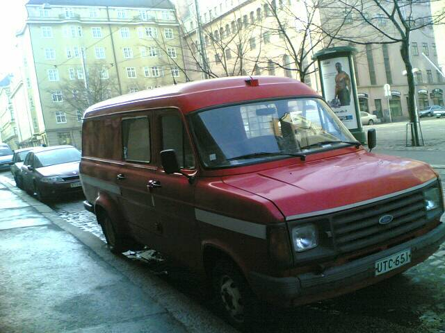 Ford Transit (Late Mk II LWB, about 1985)